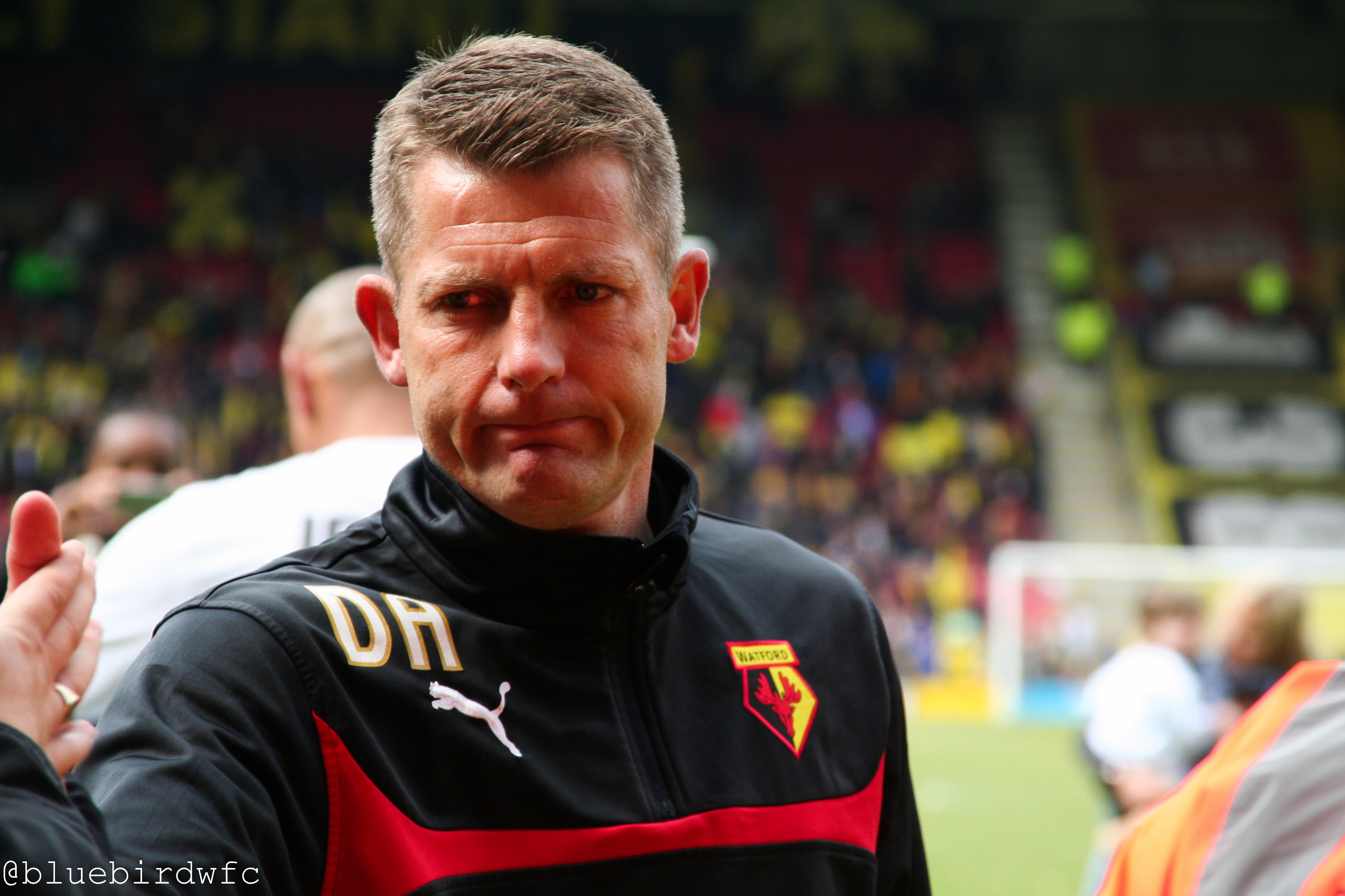 Dean Austin during lap of honour after 2014/15 season.